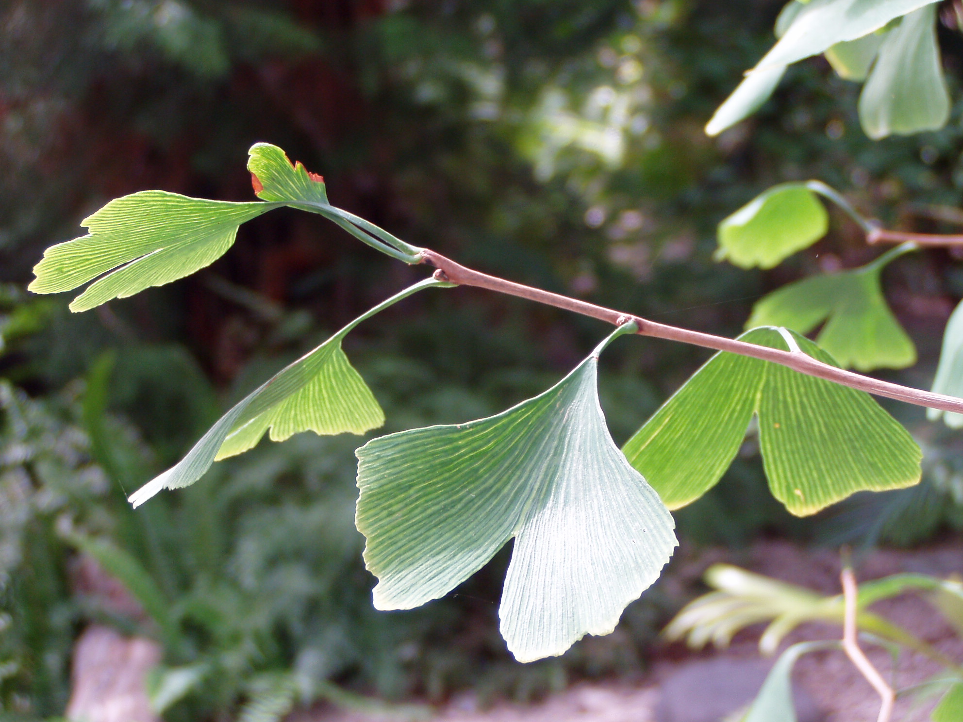 Maidenhair tree